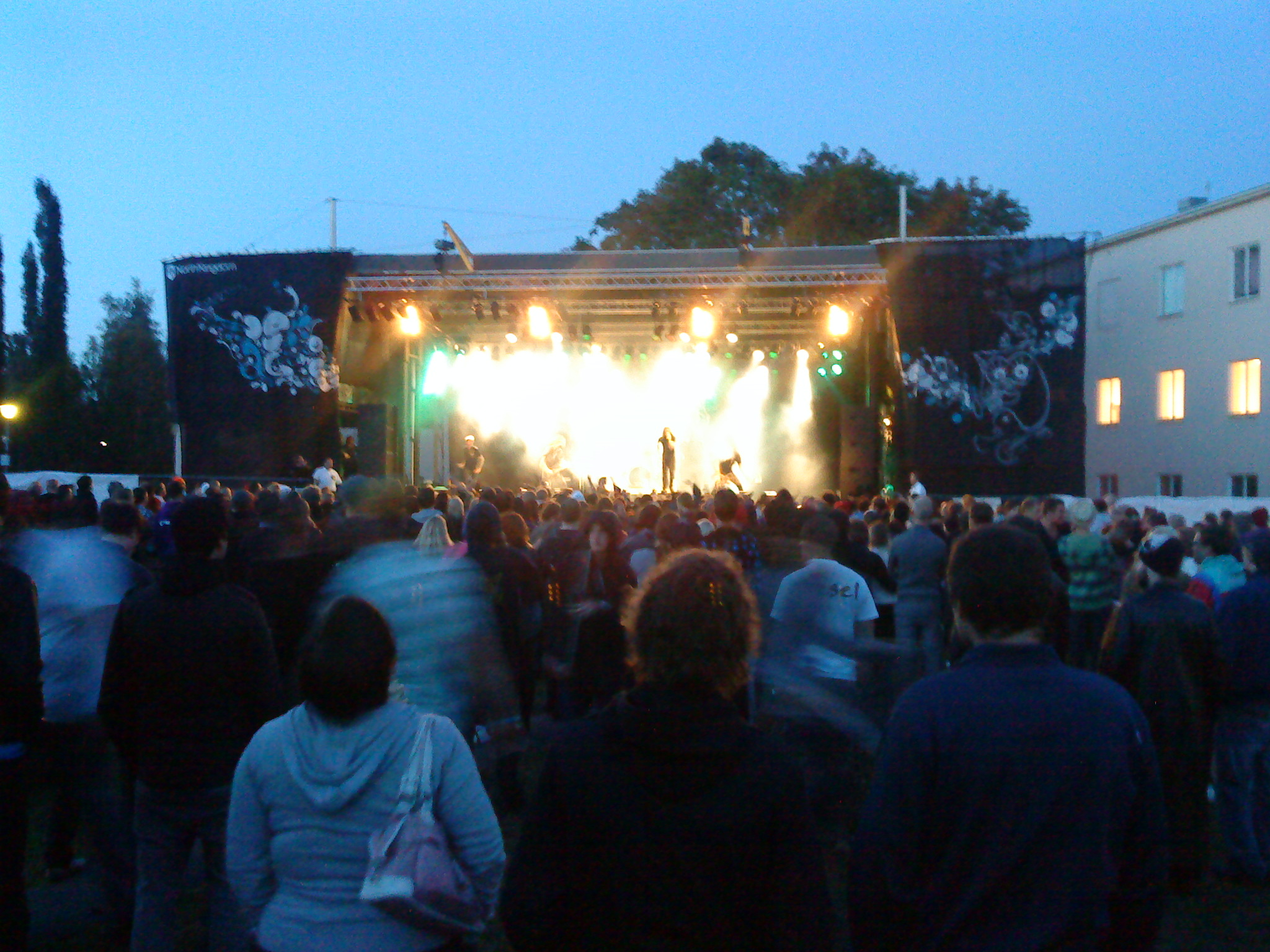 Totalt Jävla Mörker at Trästockfestivalen 2009, Skellefteå, Sweden.